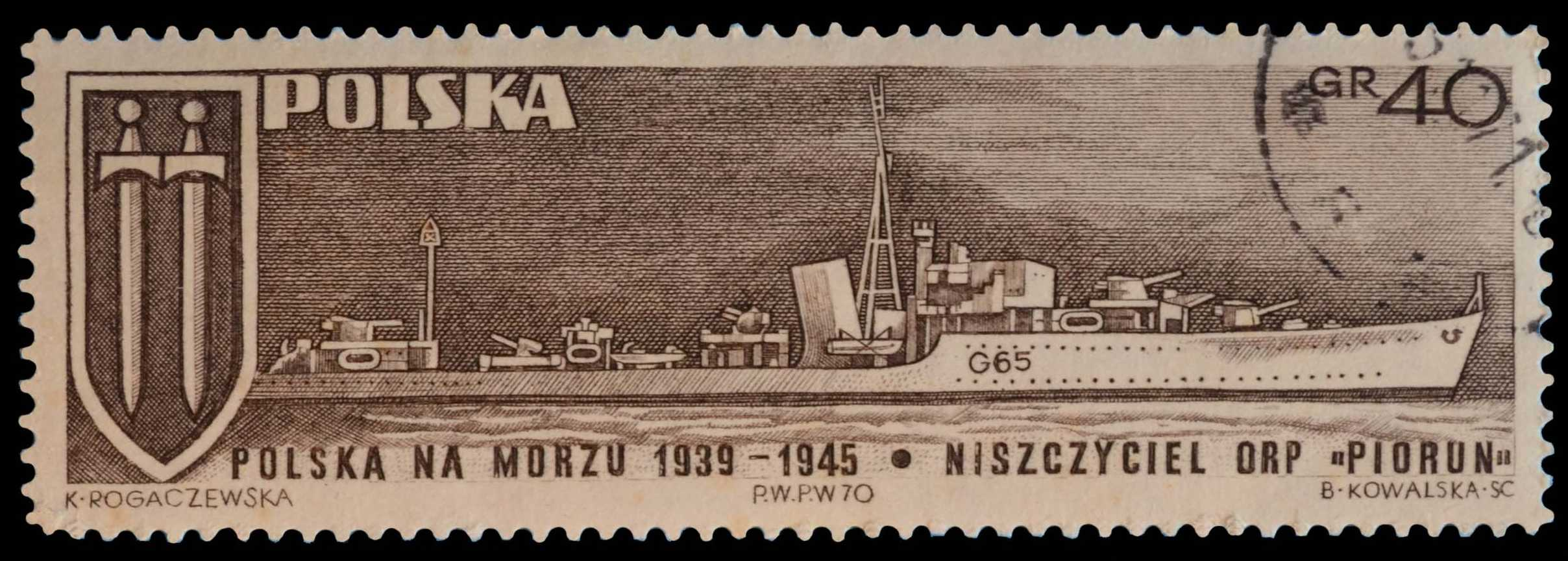 Polish post stamp with depiction of ORP Piorun (polish destroyer from the time of II world war), issued in year 1970 by Polska Wytwórnia Papierów Wartościowych.